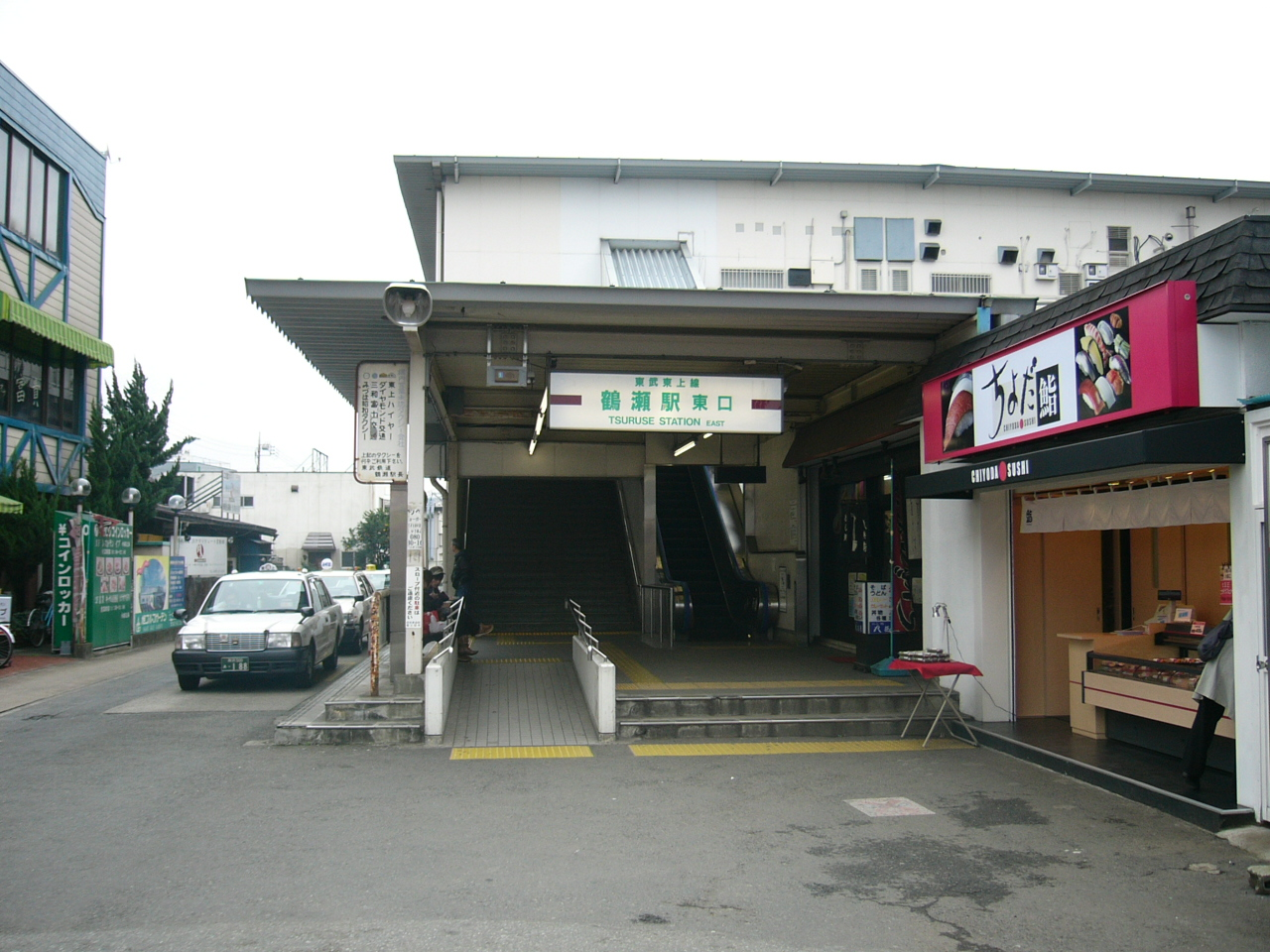 The east entrance to Tsuruse Station on the Tobu Tojo Line in Saitama Prefecture, Japan